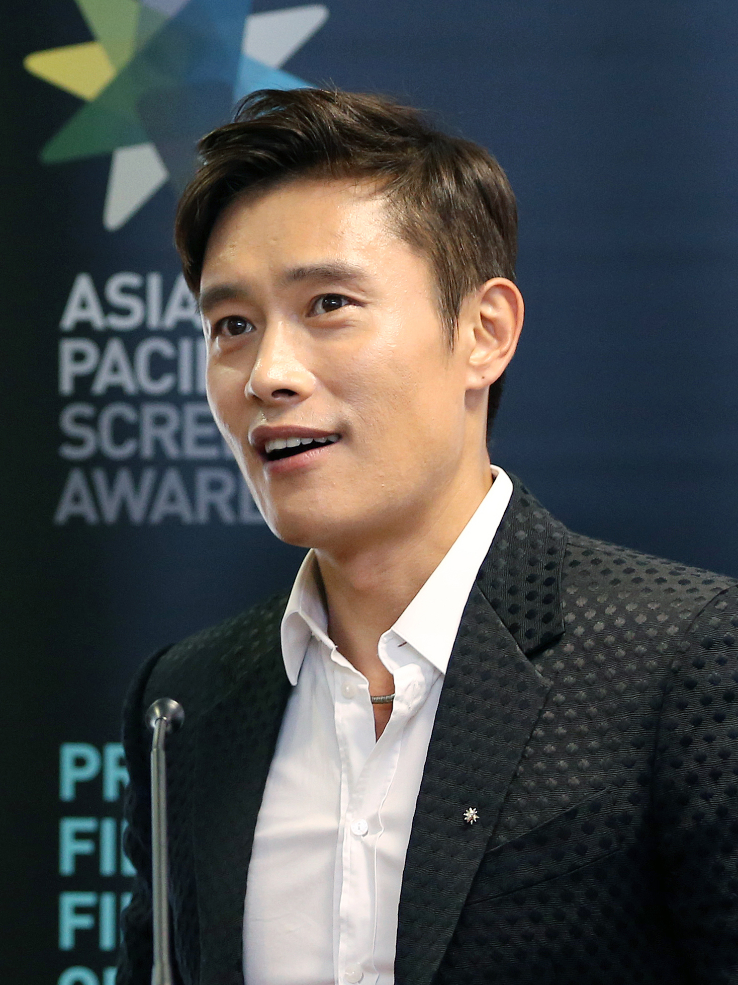 Actor Lee Byung-hun APSA(Asia Pacific Screen Awards)June 3, 2014Australian Embassy, SeoulMinistry of Culture, Sports and TourismKorean Culture and Information ( Photographer: Jeon Han---------------------------------------------------------------이병헌 2013 아시아 태평양 스크린 어워즈 남우주연상 수상2014-06-03호주대사관 호주센터, 광화문문화체육관광부해외문화홍보원코리아넷전한